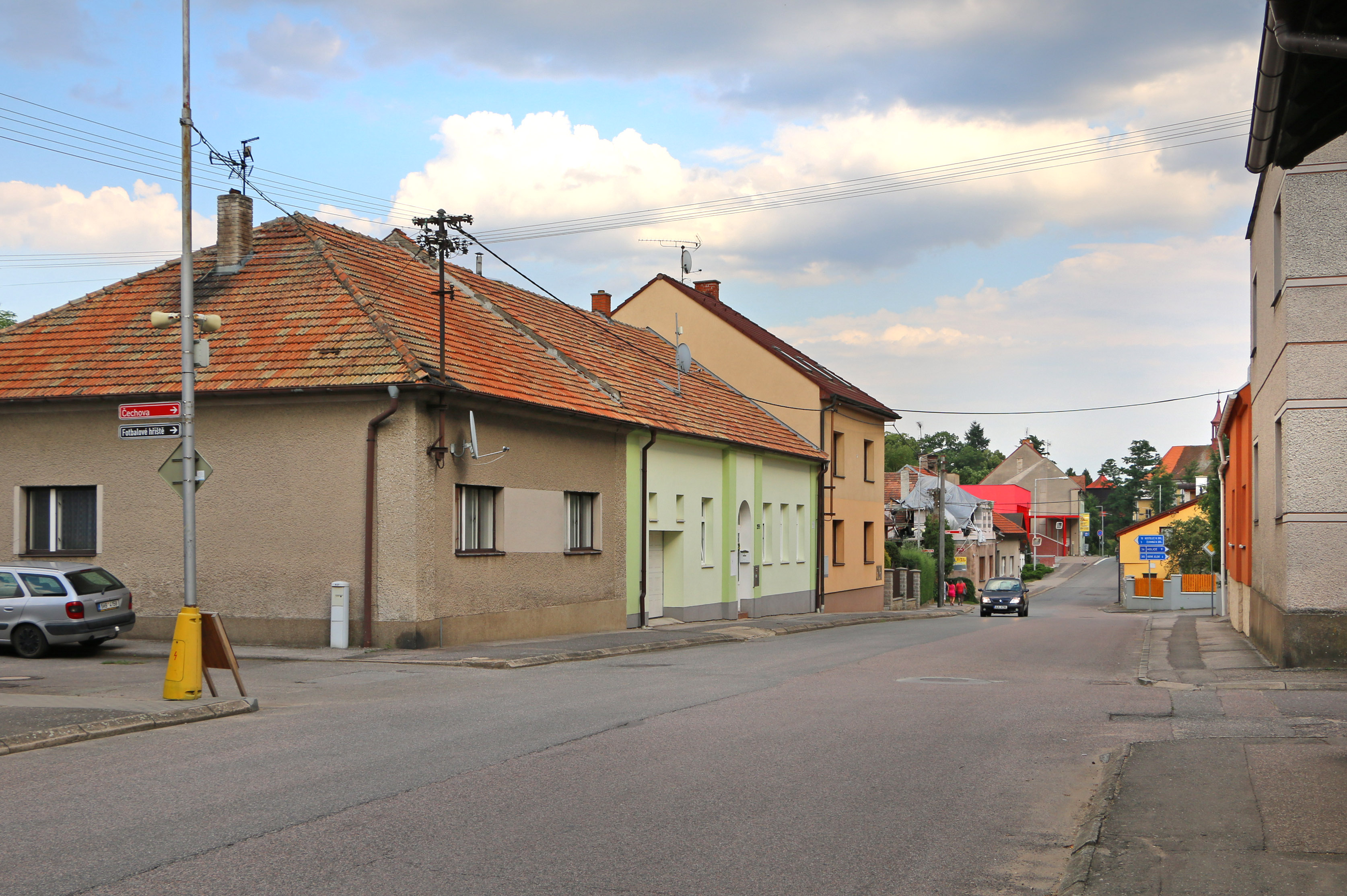 Havlíčkova street in Borohrádek, Czech Republic.